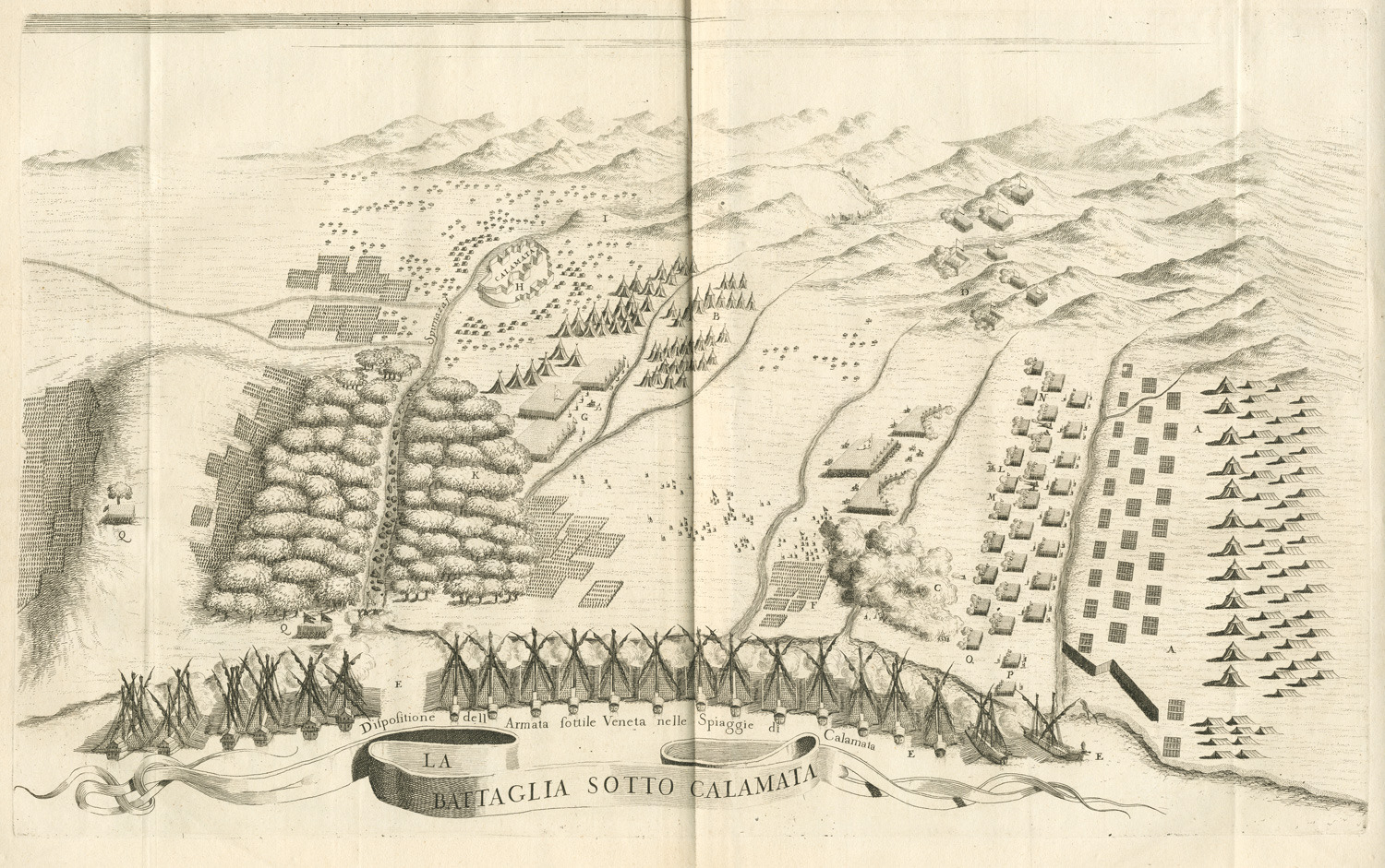 Vincenzo Coronelli - Repubblica di Venezia p. IV. Citta, Fortezze, ed altri Luoghi principali dell' Albania, Epiro e Livadia, e particolarmente i posseduti da Veneti descritti e delineati dal p. Coronelli, Venice, 1688.